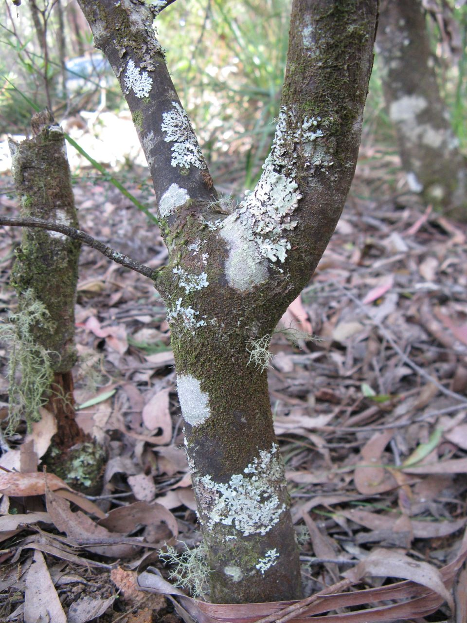 Tasmannia lanceolata, Monga National Park